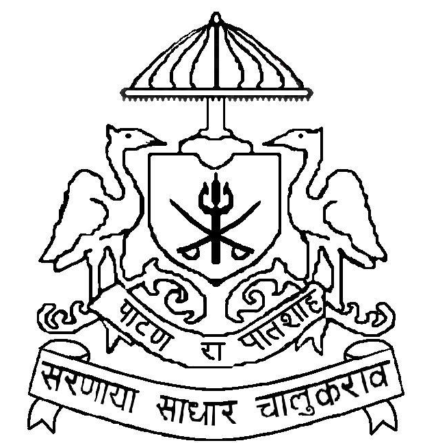 Coat of Arms of House of Sansari